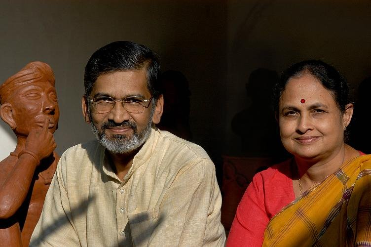 Dr. Abhay Bang and Rani Bang at SEARCH, Gadchiroli